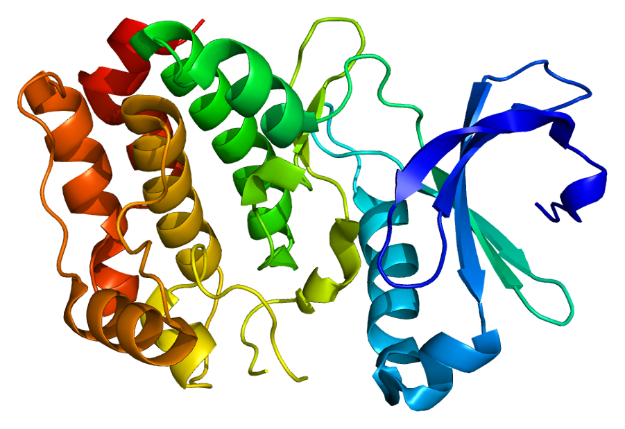 Structure of the AURKA protein. Based on PyMOL rendering of PDB 1mq4.